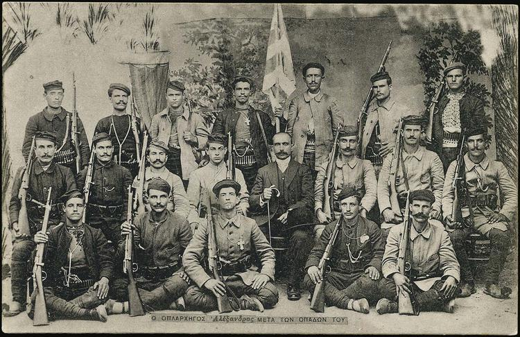 Cheta of andarts, lead by Aleksandros Aivaliotis